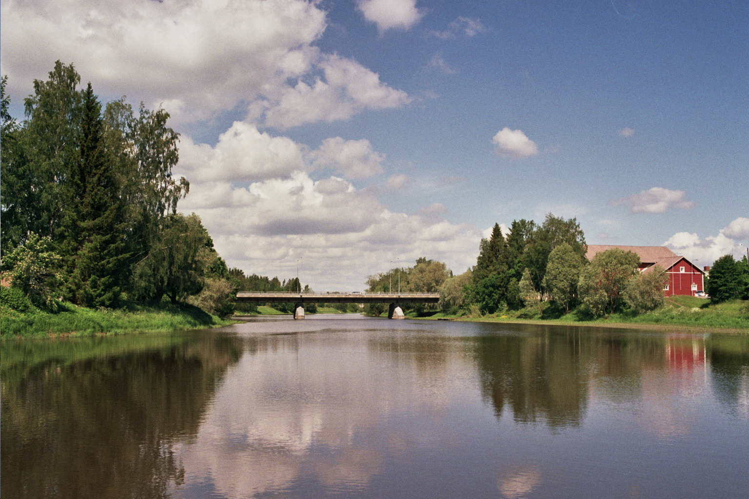 River Loimijoki in Huittinen, Finland.